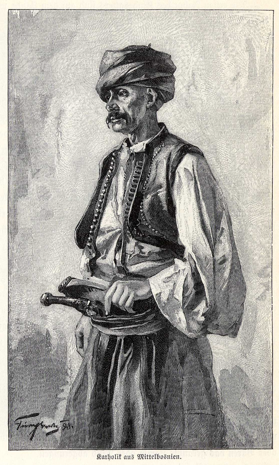 A Catholic from Central Bosnia.